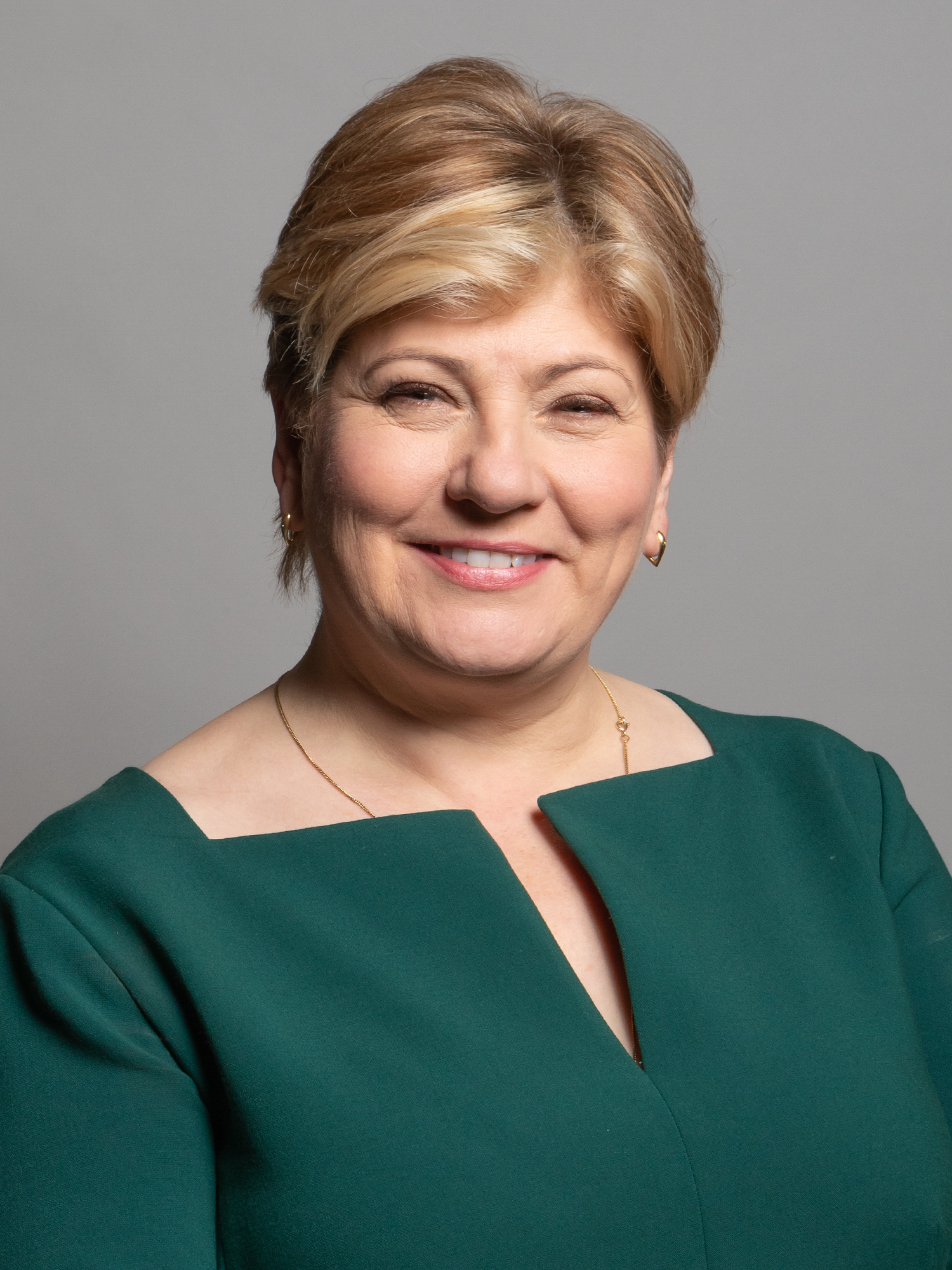 Official portrait of Rt Hon Emily Thornberry MP 3×4 portrait of Emily Thornberry, January 2020